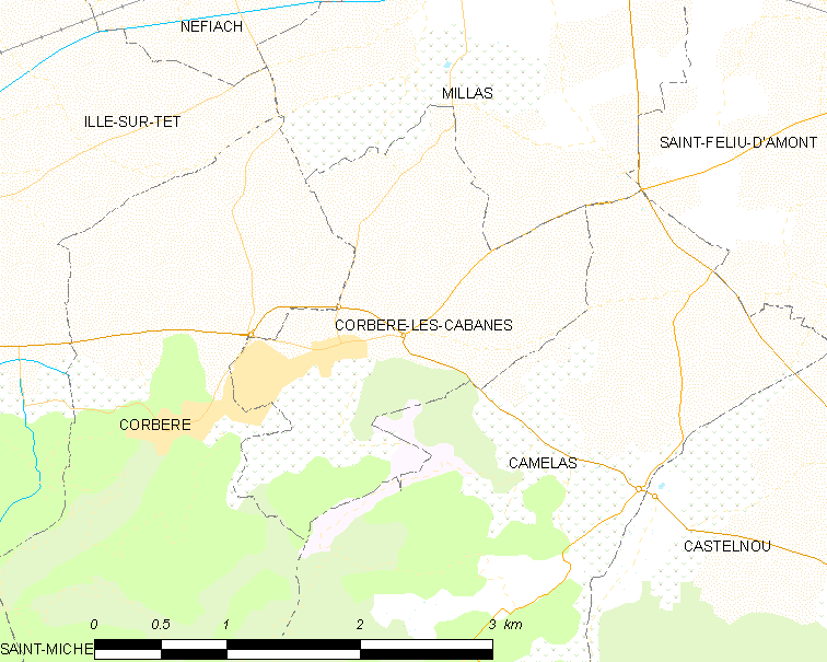 Map of French municipality